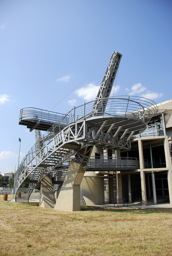 Giardino di Archimede (Archimedes' Garden) - the Museum of Mathematics, Florence, Italy. Entrance. Metallic stairway.